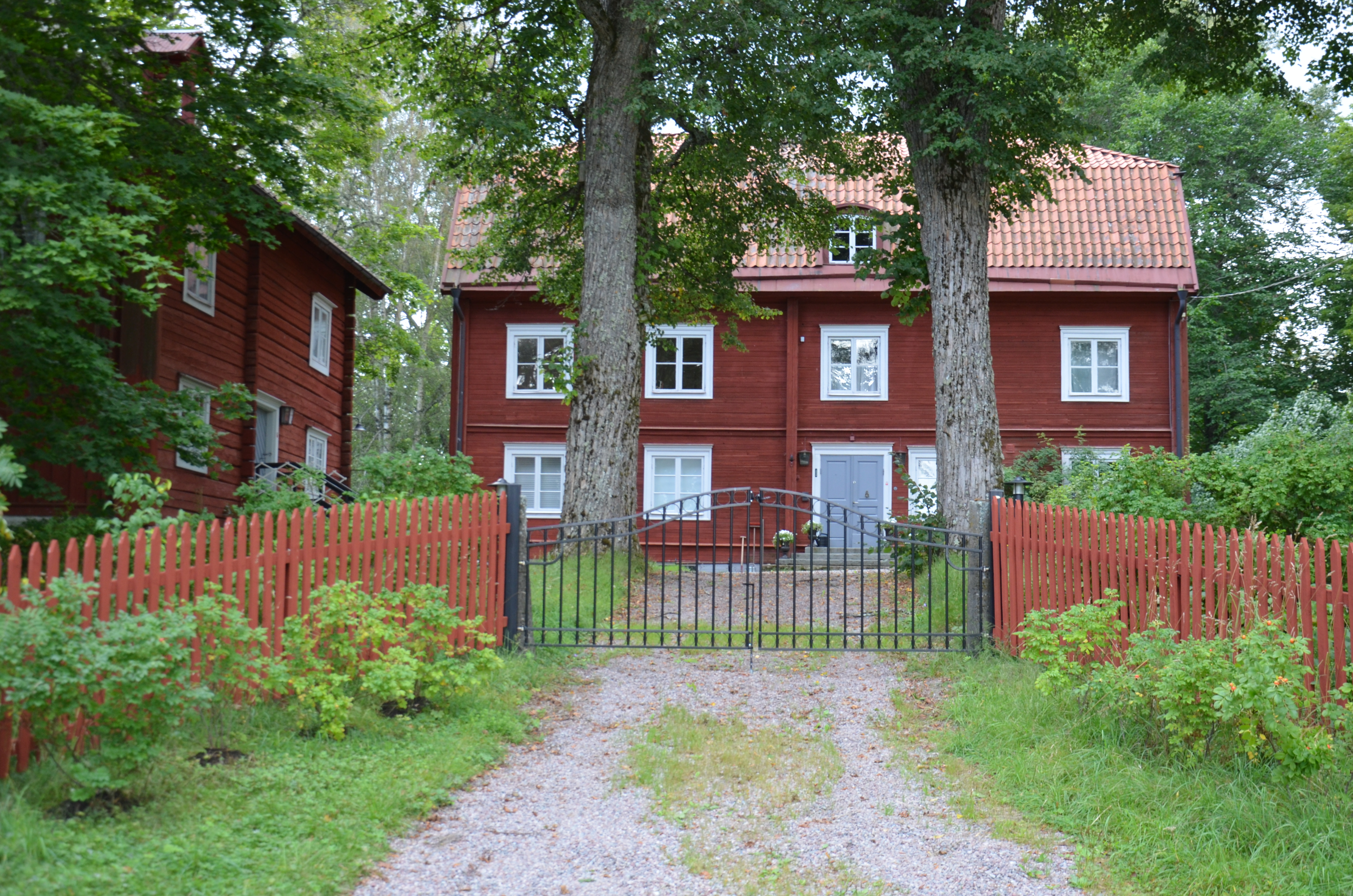 F.d. gästgivargården i Hästbäck, Norbergs kommun